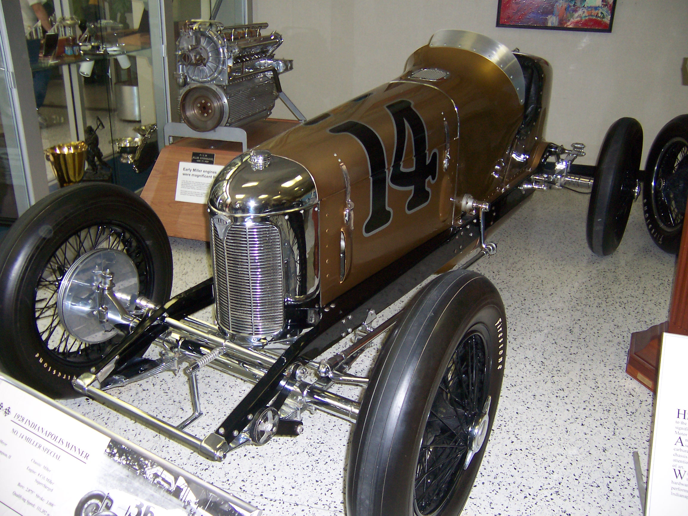 Image of the winning car of the 1928 Indianapolis 500 (Louis Meyer). Photo was taken at the Indianapolis Motor Speedway Hall of Fame Museum, during the month of May 2011, at the 100th Anniversary "Ultimate Indianapolis 500 Winning Car Collection."